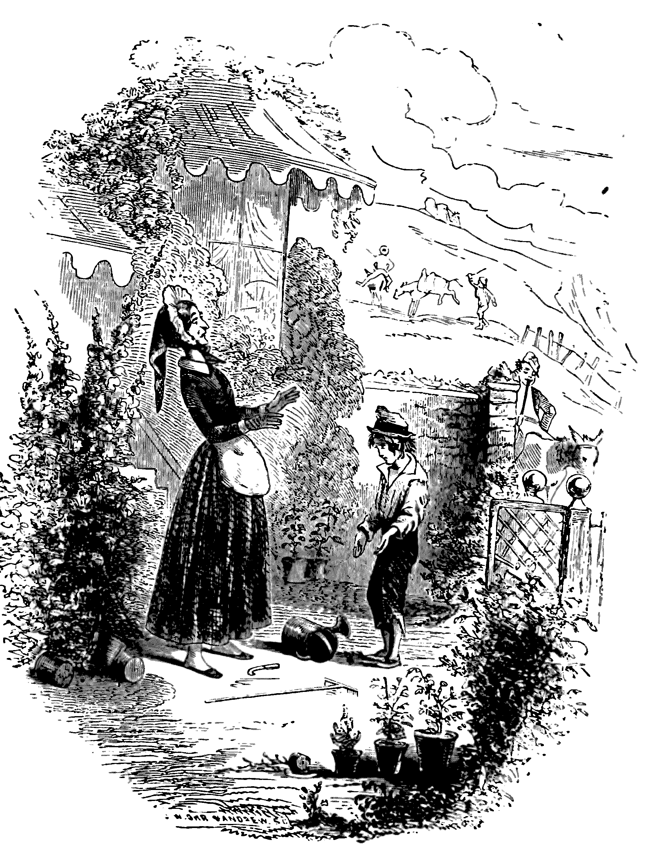 I MAKE MYSELF KNOWN TO MY AUNT